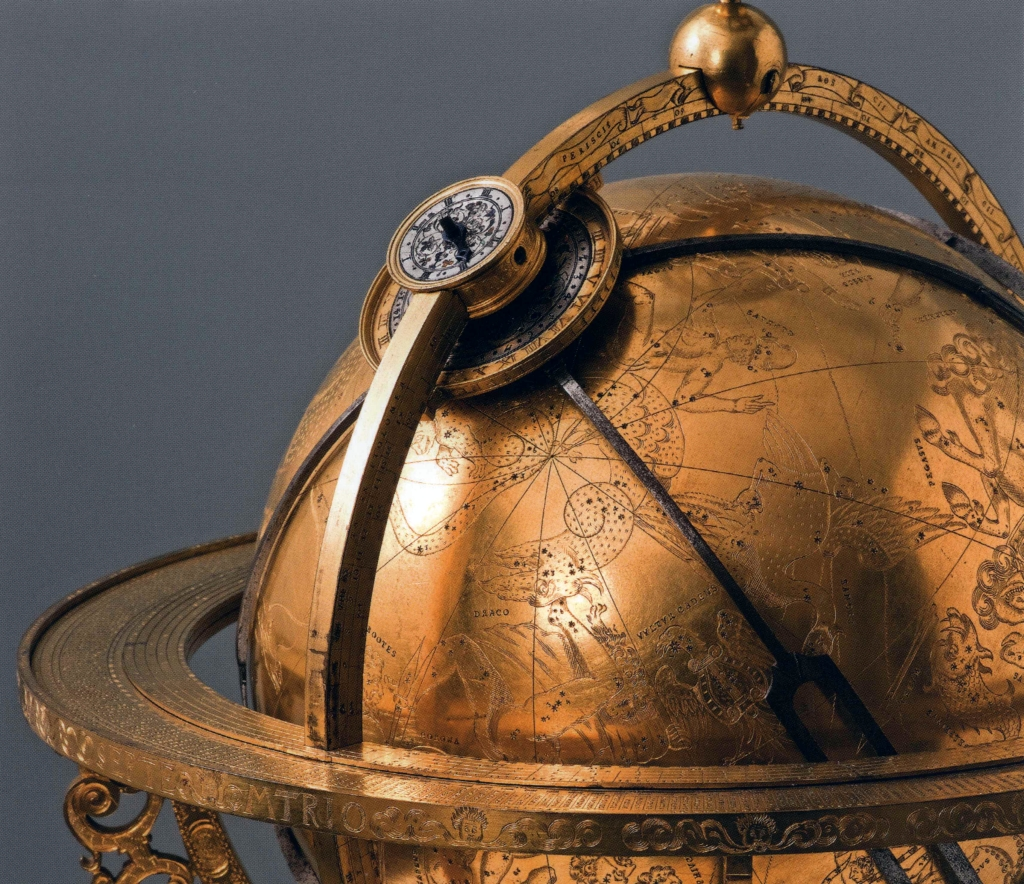 Excerpt of a celestial globe from 1586, shown in The Royal Cabinet of Mathematical and Physical Instruments in Dresden, Germany